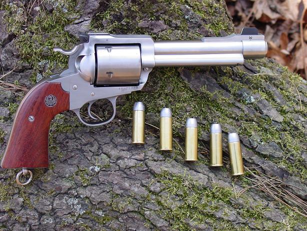 Bowen Classic Arms 500 Linebaugh